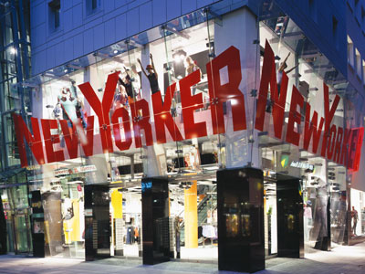 New Yorker, Dortmund